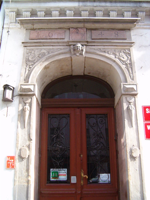 Toruń, 30 Mostowa Str., portal dating back to 1648